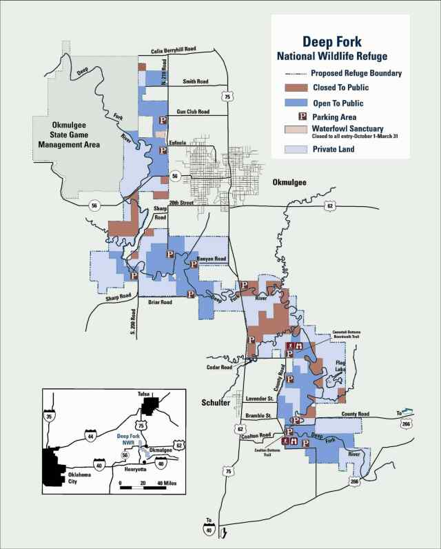 A map of Deep Fork National Wildlife Refuge in Oklahoma